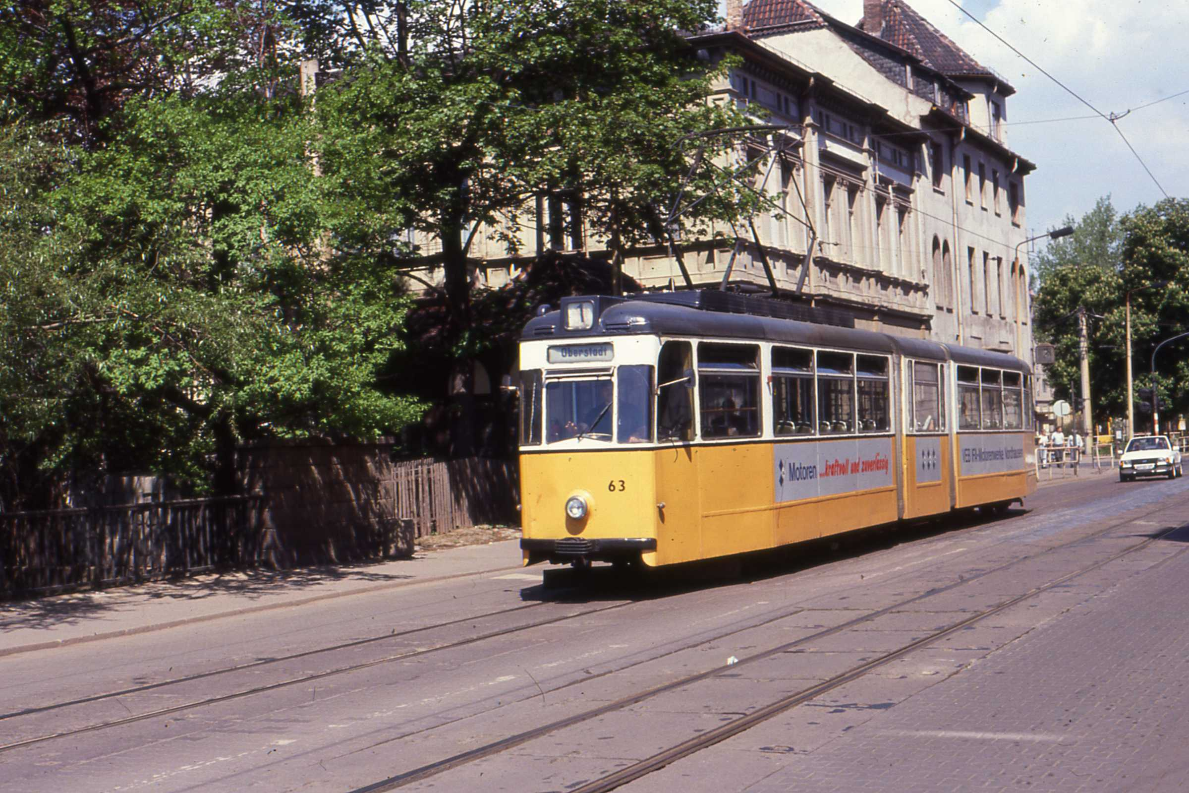 One of the handsome articulated cars which ran down the hill to the railway station terminus on Route 1. Car 63 was one of 17 acquired from Erfurt in the 1980s, this one being one of the last. A further car was acquired from Leipzig. 63 is one of a pair which still survives. The tram carries an advertisement for one of the largest state-owned industries in Nordhausen, a diesel engine plant VEB MOTORENWERKE NORDHAUSEN. The motto is KRAFTVOLL und ZUVERLAESSIG, powerful and reliable. This concern was part of the Fortschritt Tractor combine, making engines for their tractors and also for IFA lorries.